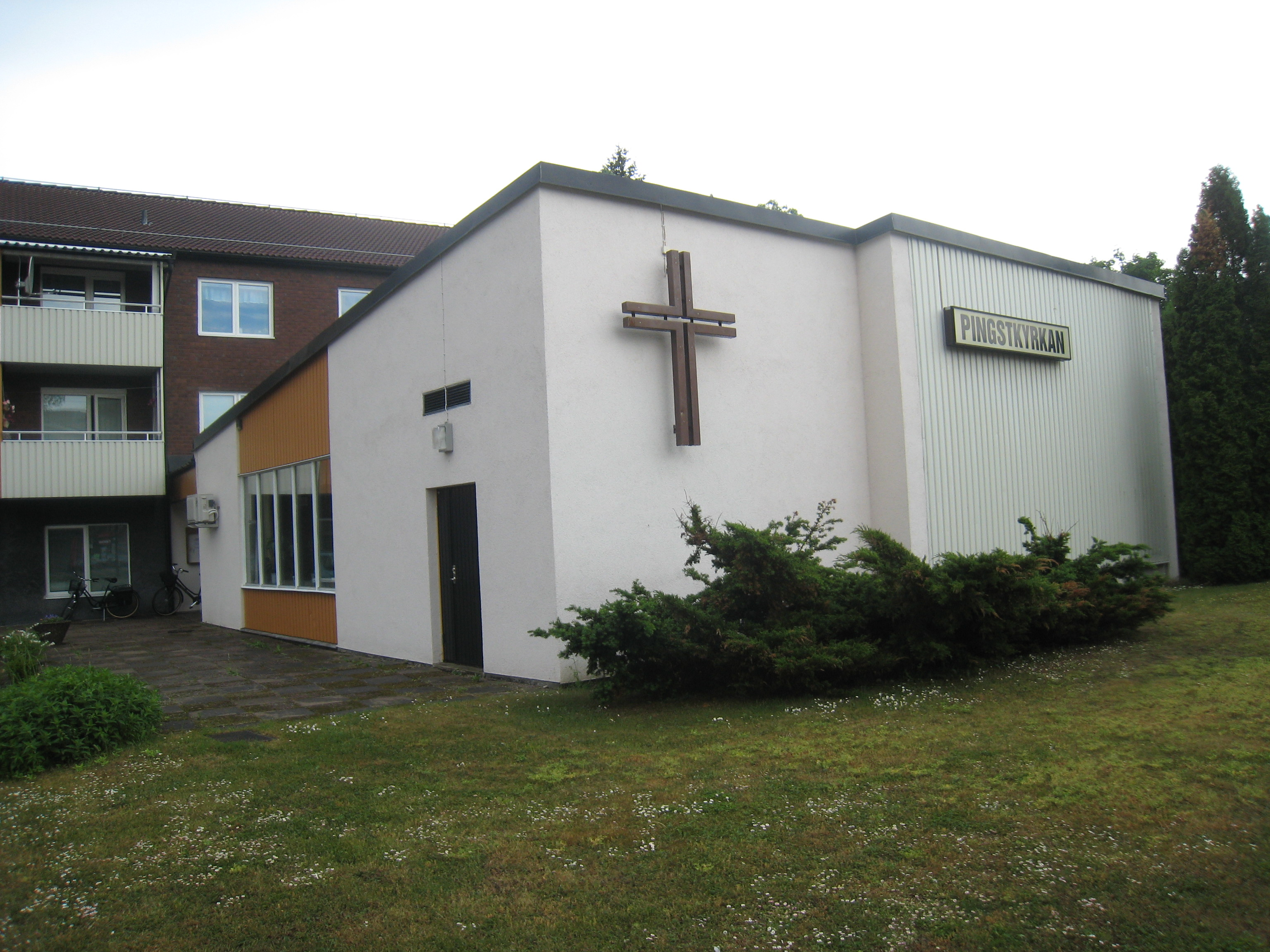 Pentecostal church in Hallstavik, Norrtälje Municipality, Sweden